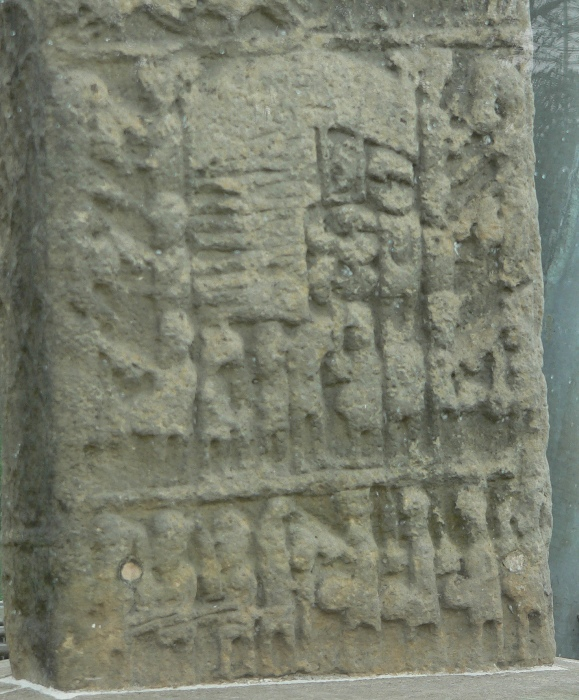 Sueno's Stone, Moray, Scotland - panels 3 and 4